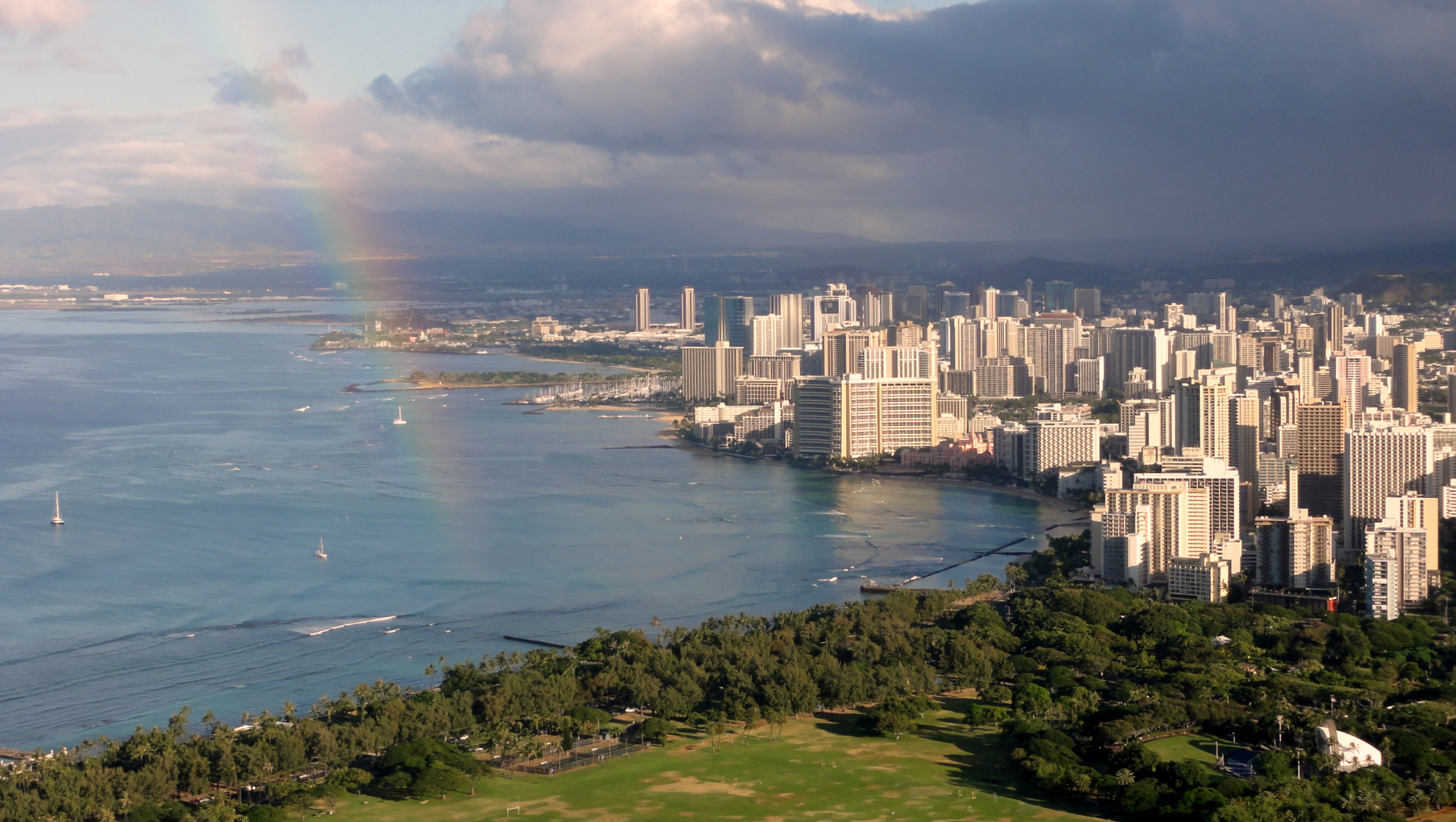 Waikiki view from Diamond Head - Oahu, Hawaii